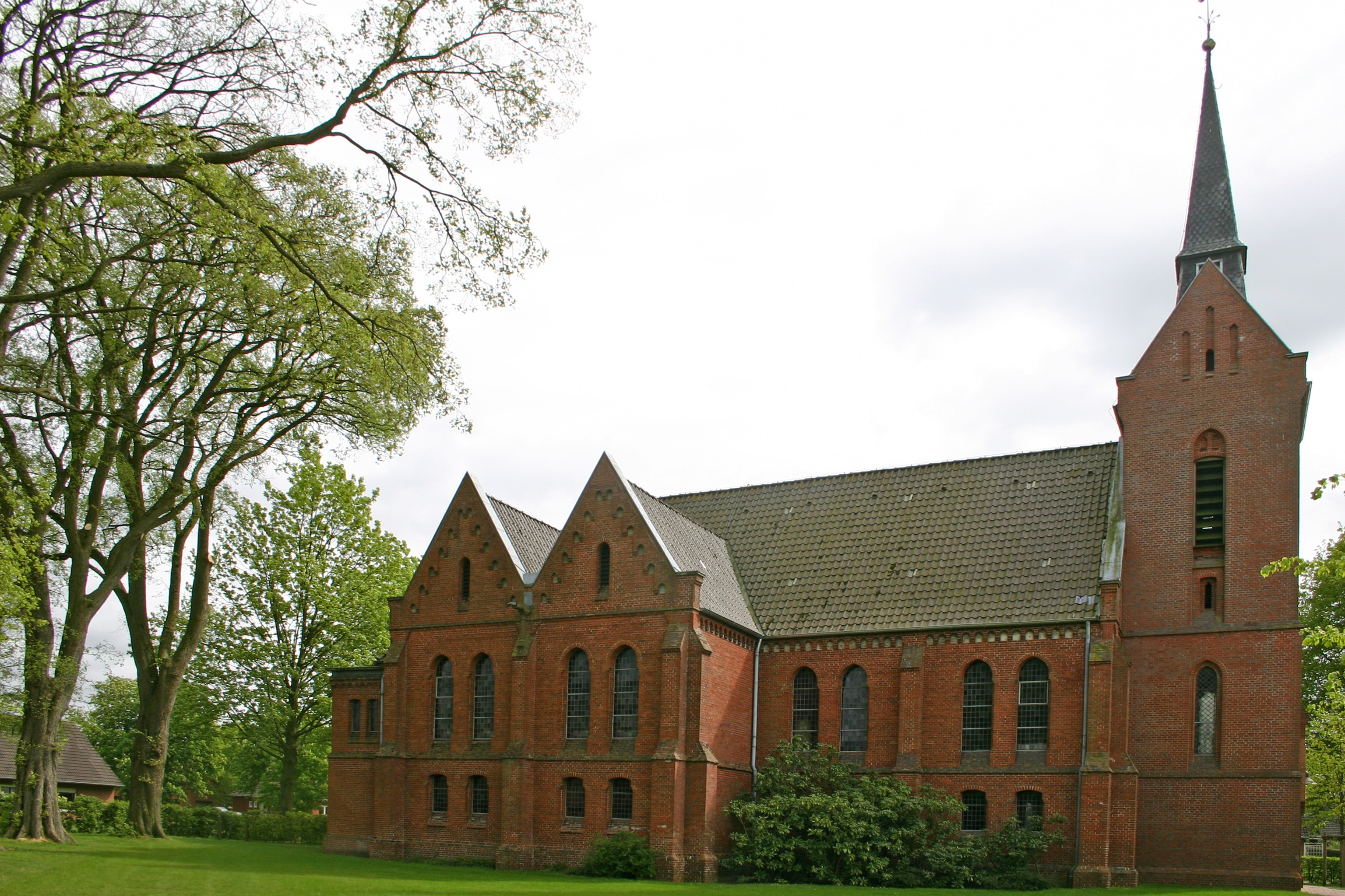 Christ Church in Hollen, district of Leer, East Frisia, Germany